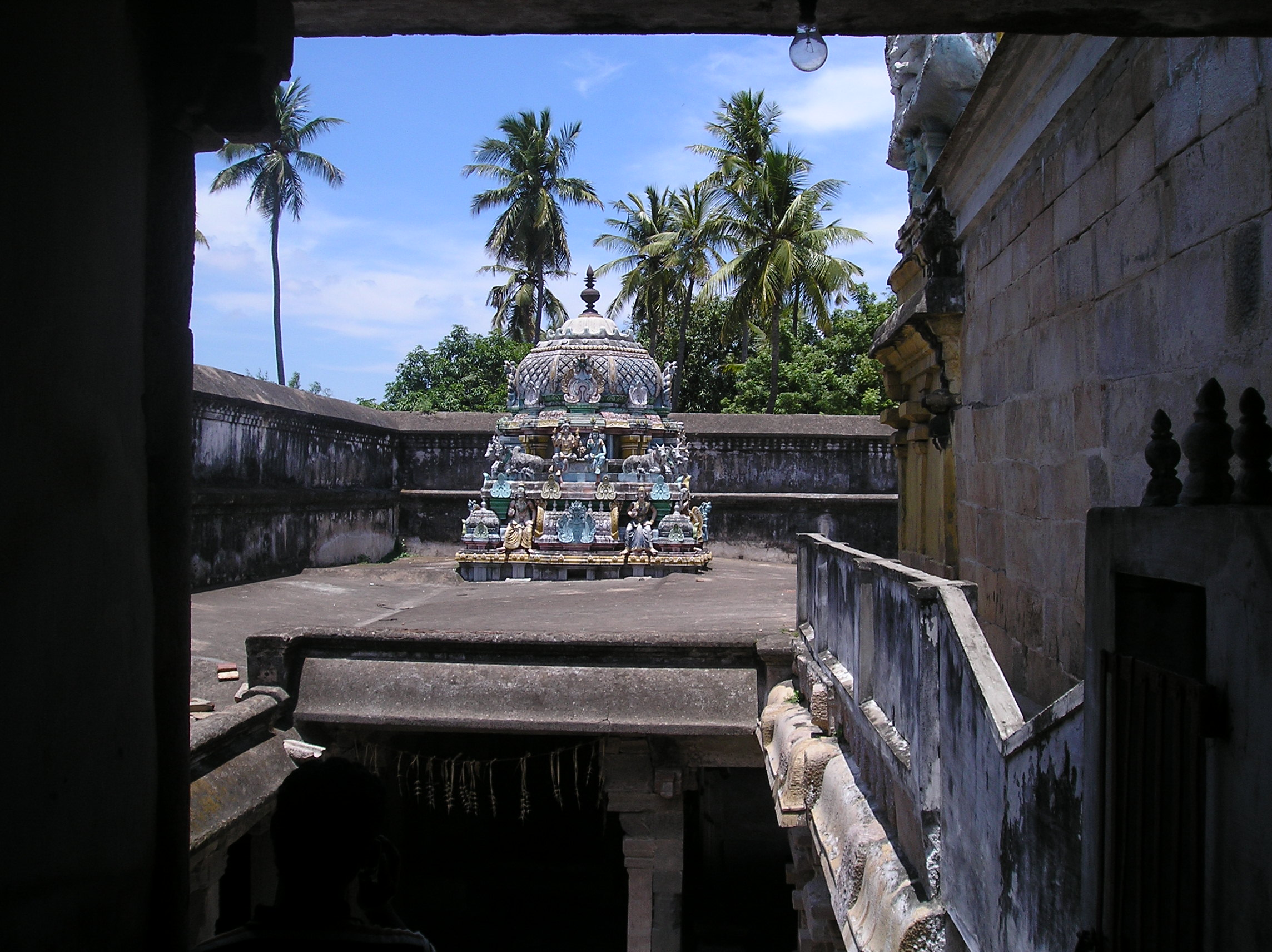 Pictures of Tirunallur